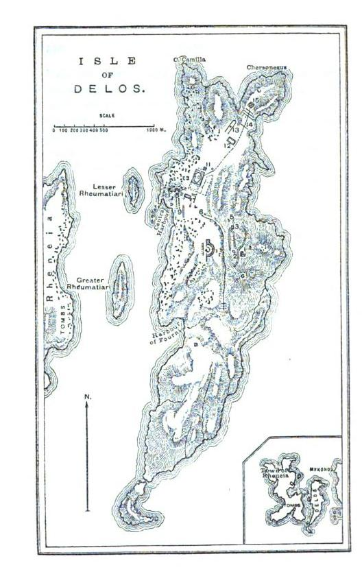 A picture of the island of Delos.